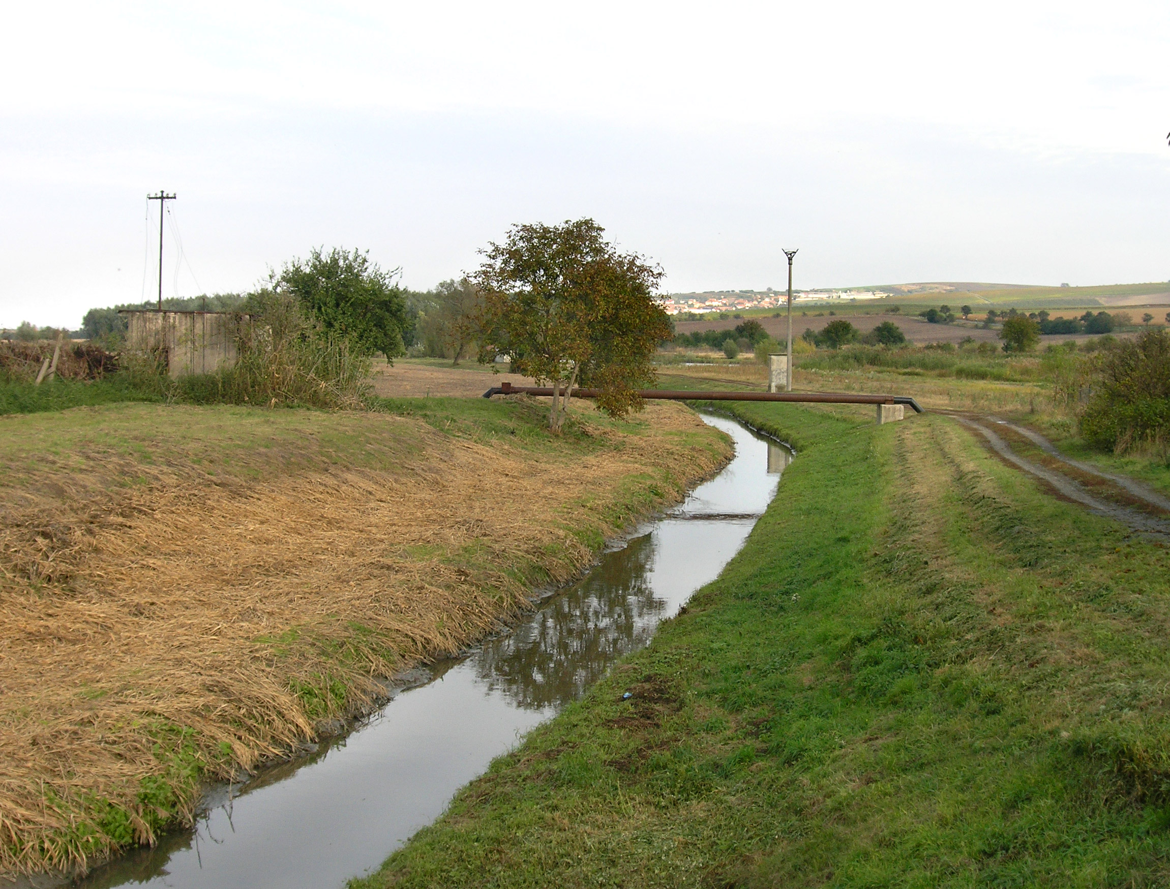 Trkmanka River in Bořetice, Czech Republic